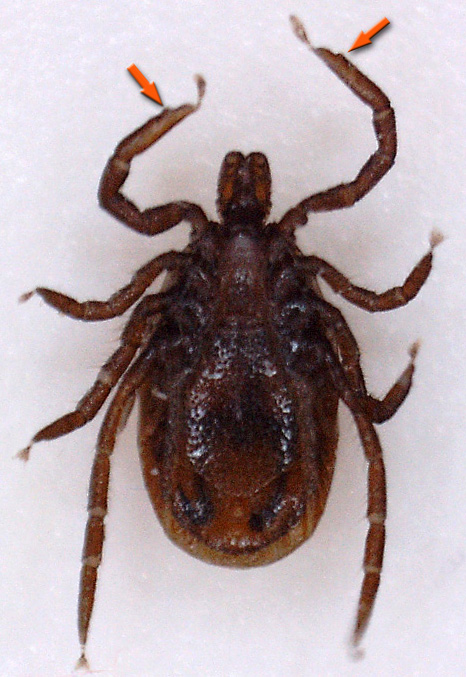 Haller's organ, in tick Ixodes ricinus